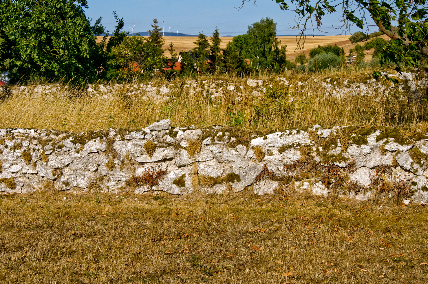 Etzelsrode, ancient cemetery wall